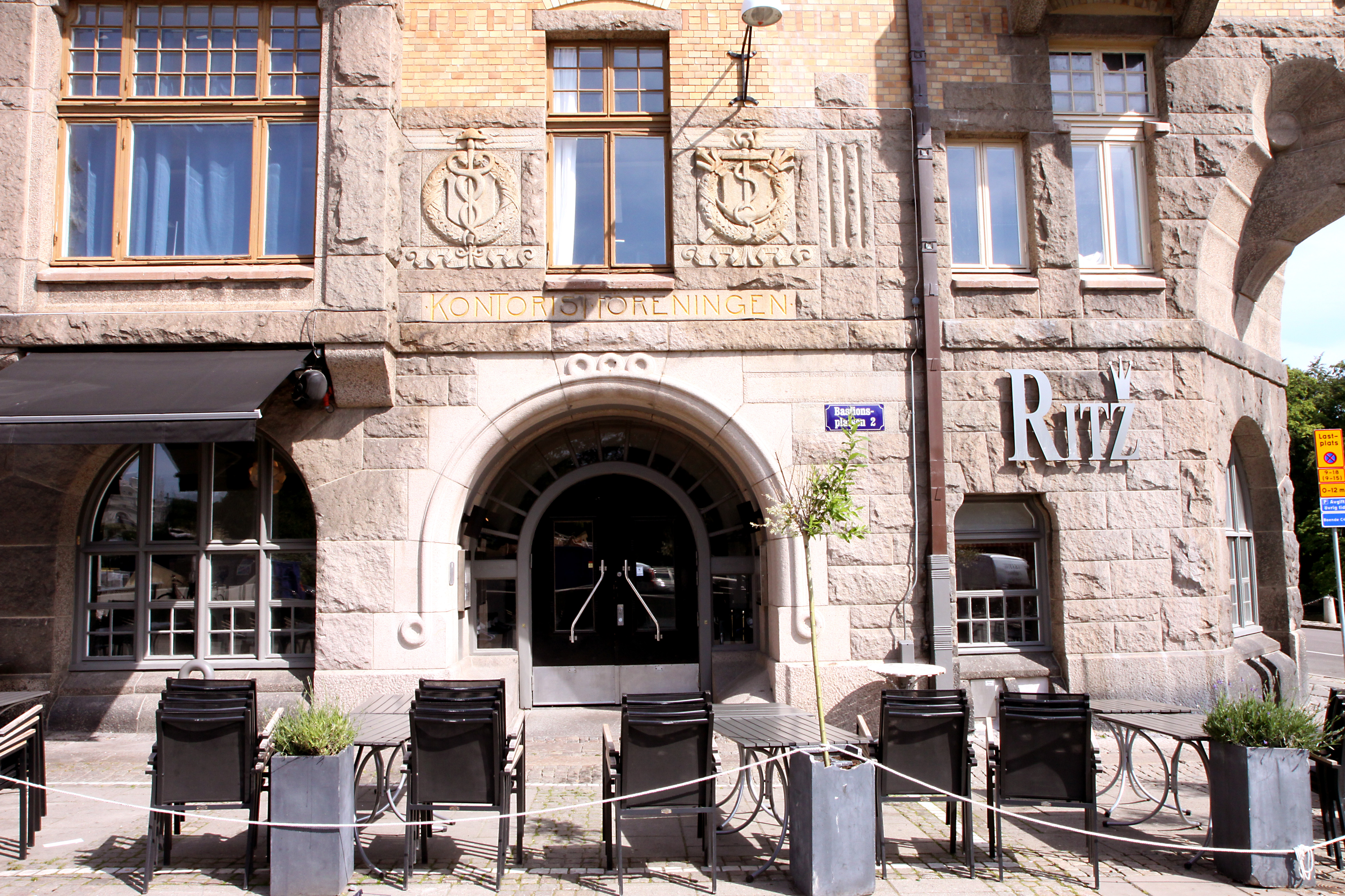 The building "Kontoristföreningens hus" in Gothenburg, Sweden.